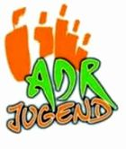 Old adrjugend logo